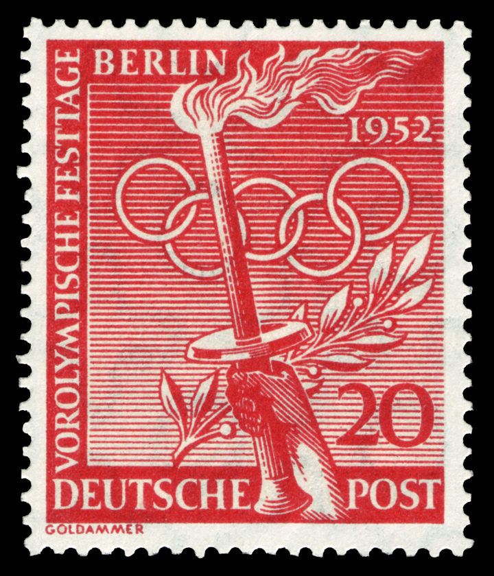 stamp series, days before olympia